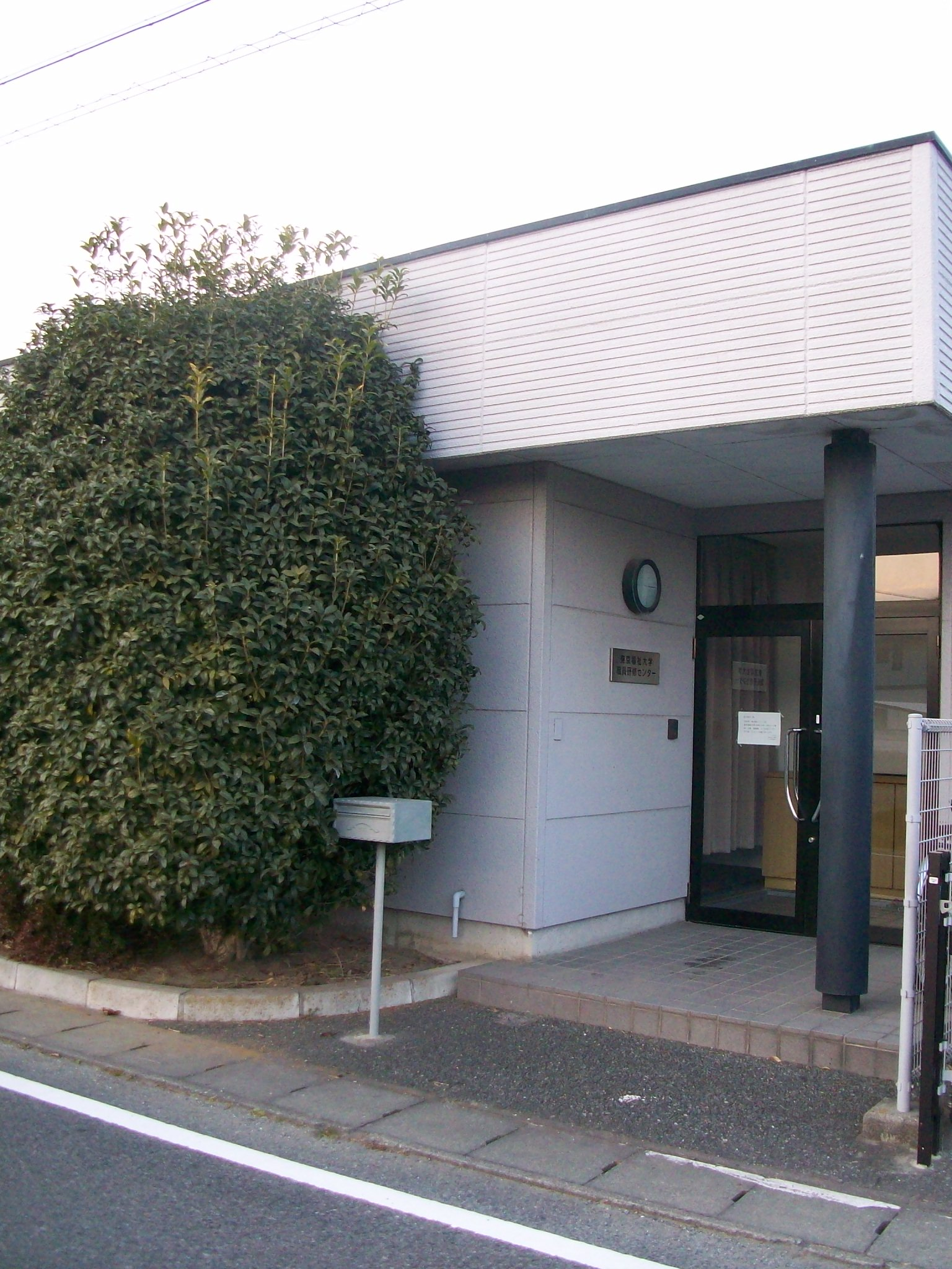 The seminar center at Isesaki Campus, Tokyo University of Social Welfare